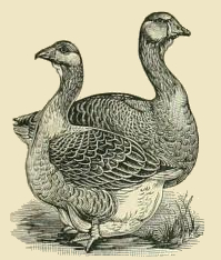 (Removed after reusableart request.)